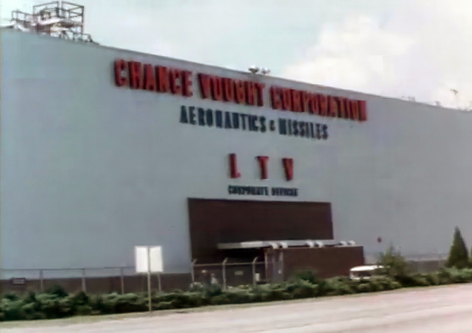 Vought Building in the 60s from NASA's video.